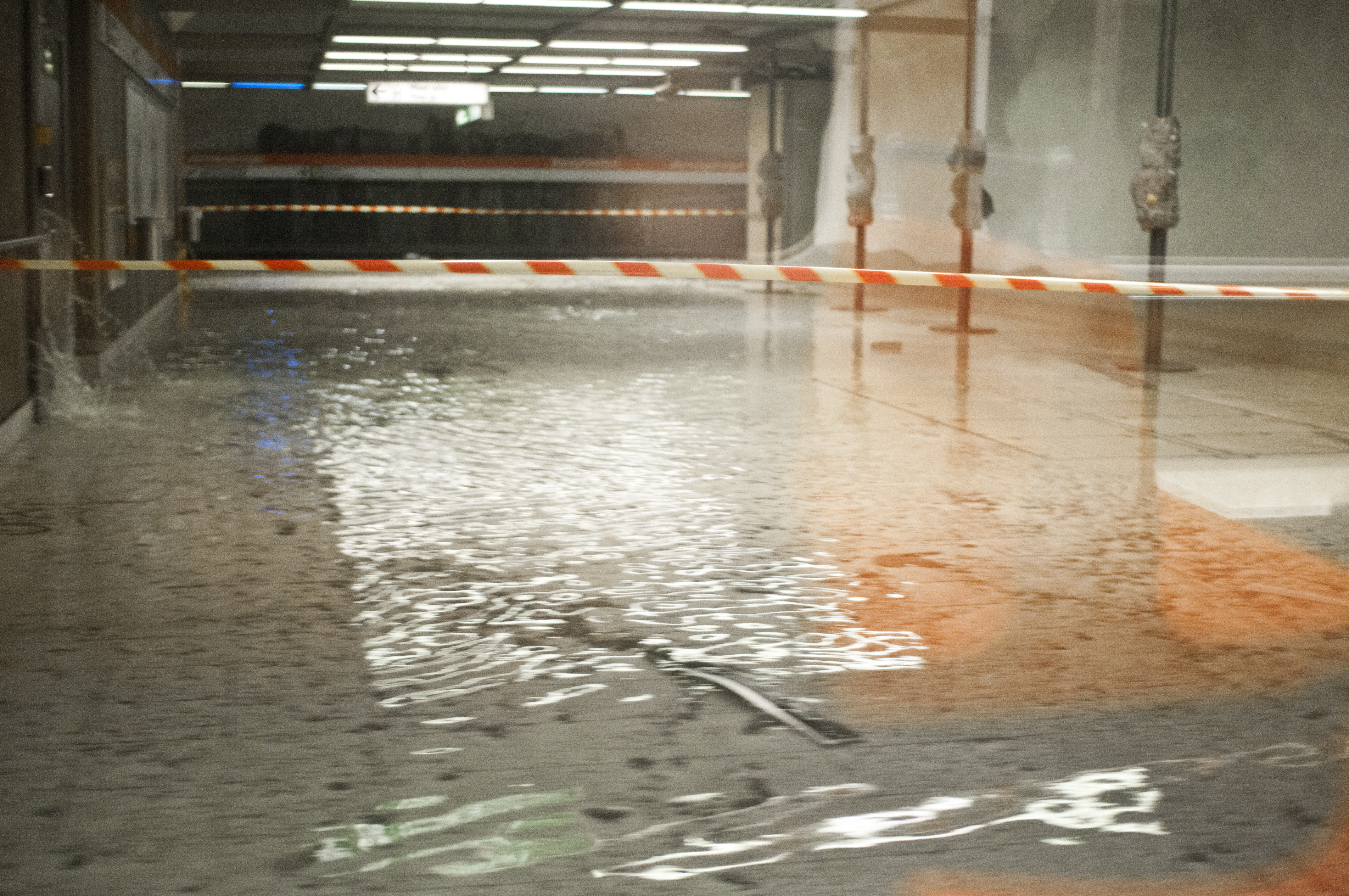 Rautatientori metro station flooding after water pipe failure in 8.11.2009, Finland